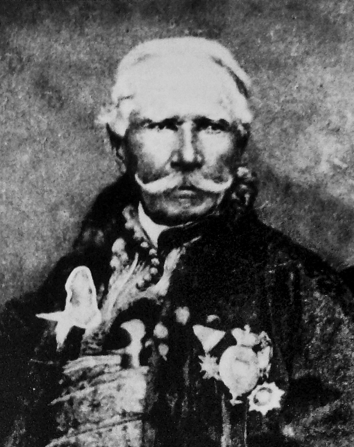 Rista Prendić, Serbian princely tatar (postman) since 1835 to 1892 (PTT Museum in Belgrade)